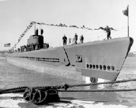 The Halibut (SS-232) is waterborne on the Piscataqua River at Portsmouth Naval Shipyard, Kittery, ME, 3 December 1941. USN photo courtesy of USNI.